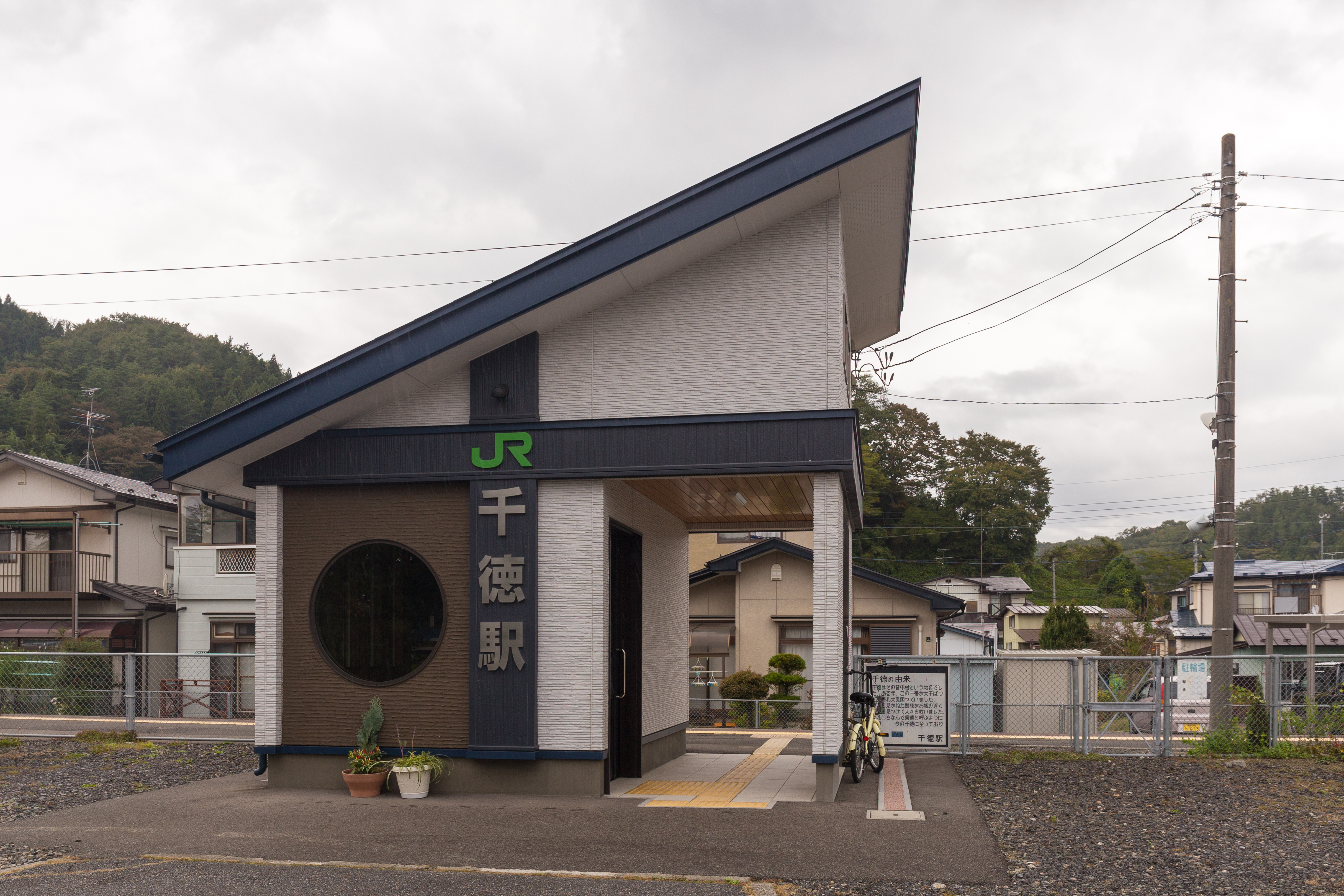 JR East Yamada Line Sentoku Station